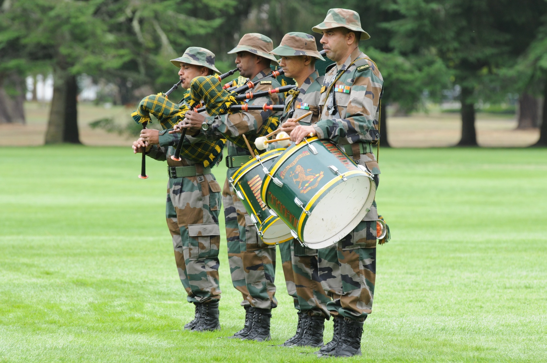 The Indian Army Band performs the Indian national anthem during the opening ceremony of Yudh Abhyas 15 at Joint Base Lewis-McChord, Wash., Sept. 9. Yudh Abhyas is an annual, U.S. Army Pacific-sponsored Theater Security Cooperation Program bilateral exercise and the first one held at JBLM.